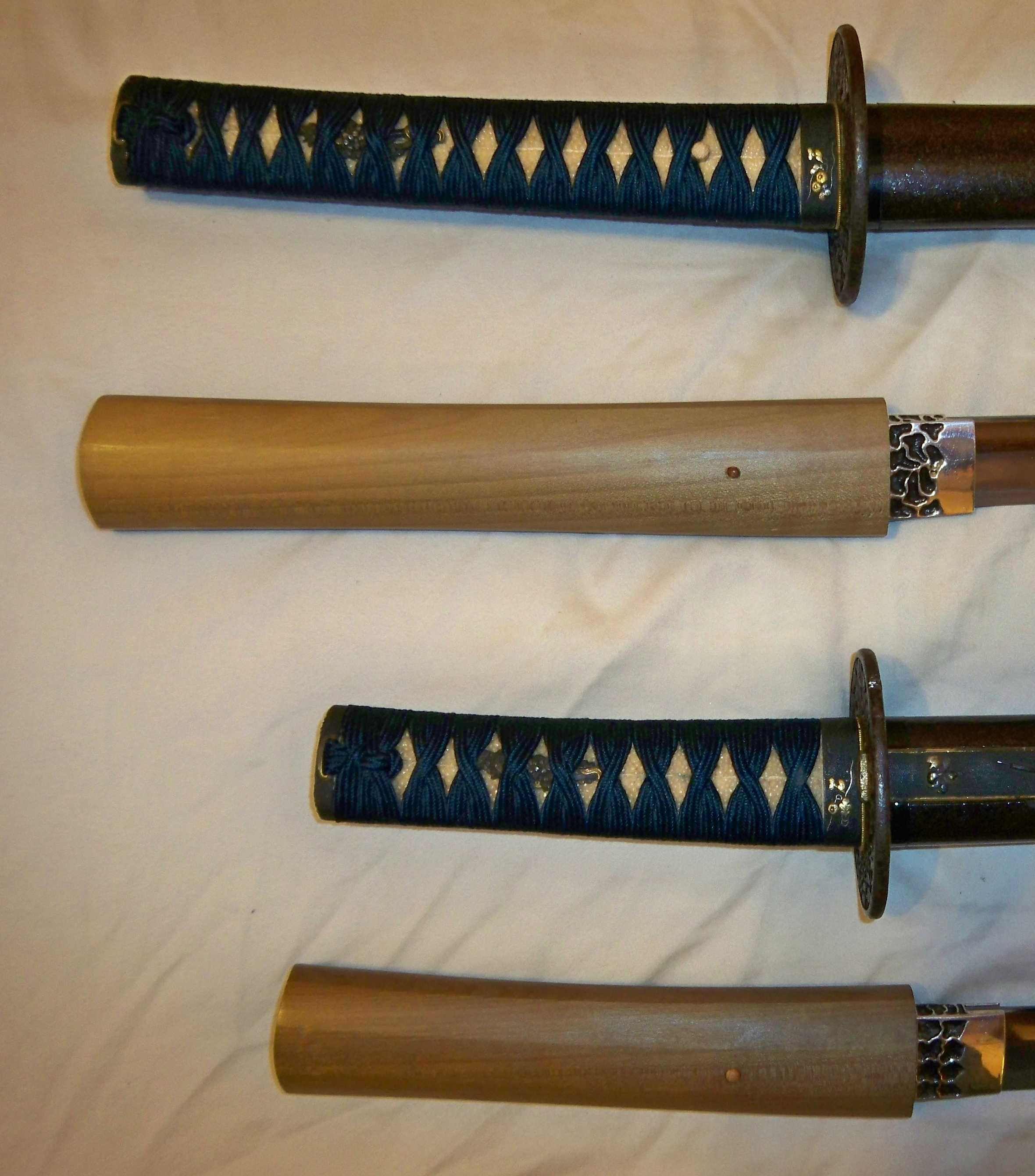 Antique Japanese (samurai) daisho tsuka.